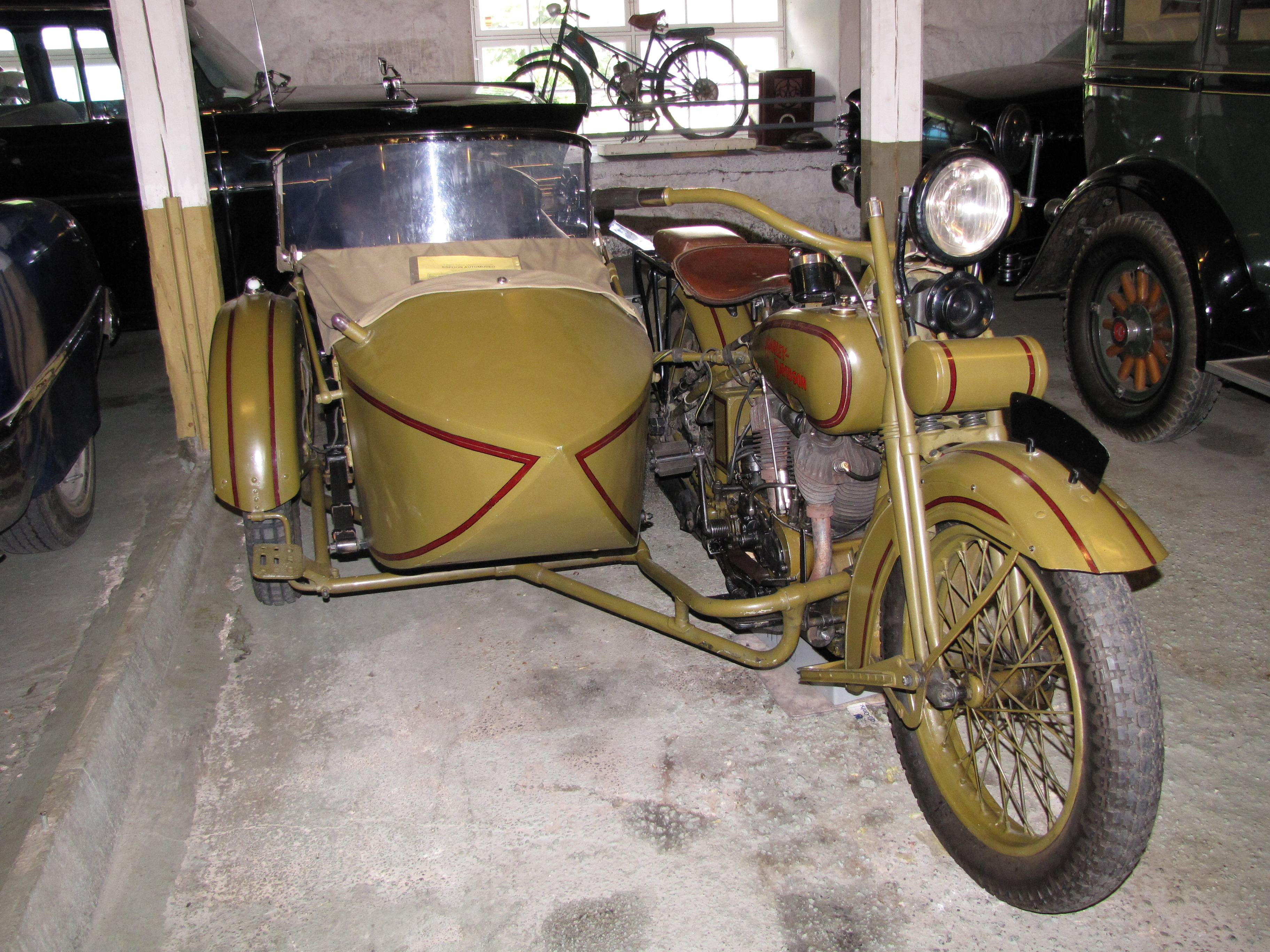 Harley-Davidson V2 1200 cc model 1926 motorcycle with sidecar. Photographed in Espoo Automobile Museum.